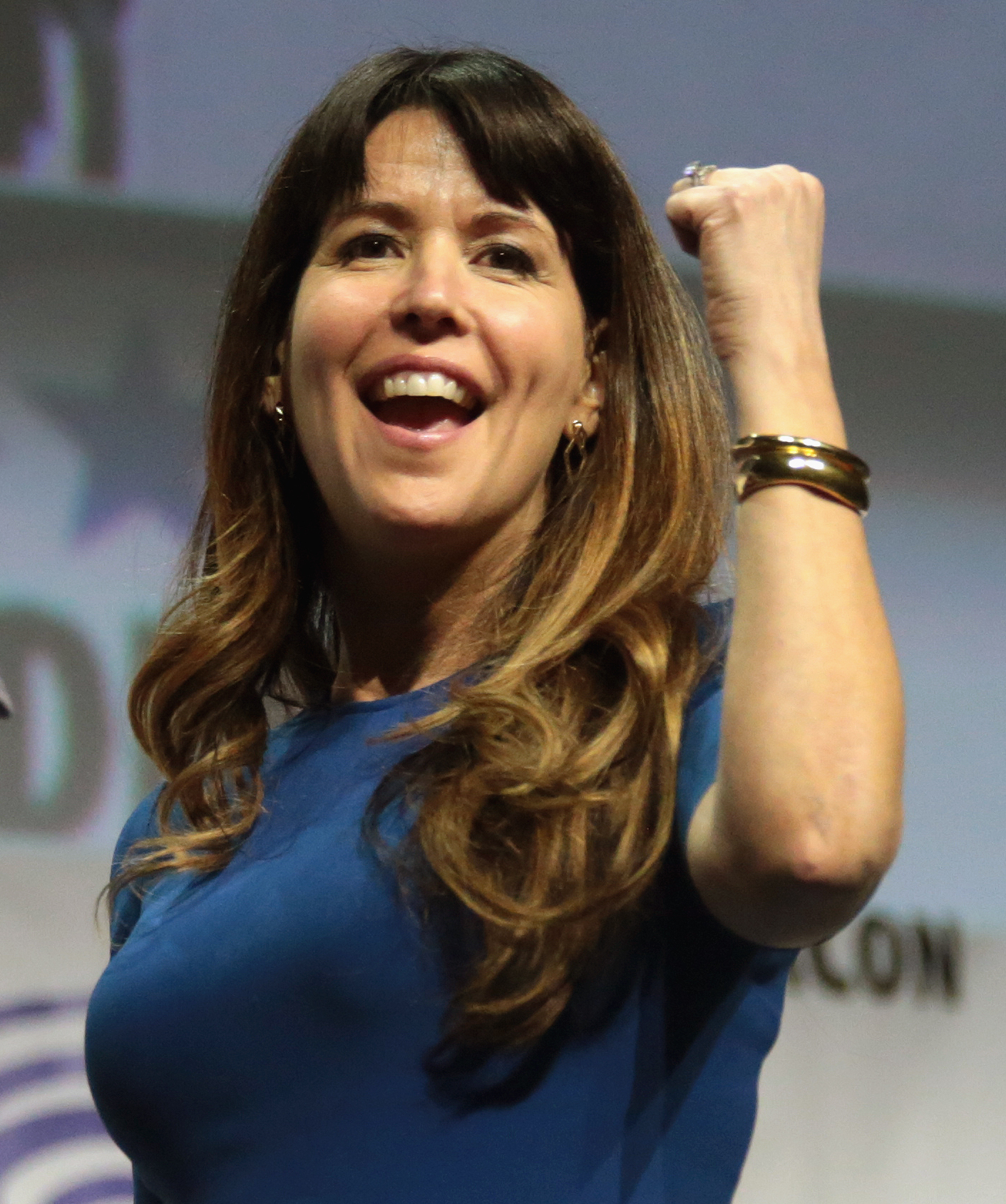 Geoff Johns and Patty Jenkins speaking at the 2017 WonderCon, for "Wonder Woman", at the Anaheim Convention Center in Anaheim, California.